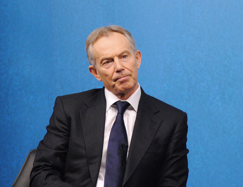 Europe, Britain, and Business: Beyond the Crisis – organized by Business for New Europe, hosted by Chatham House